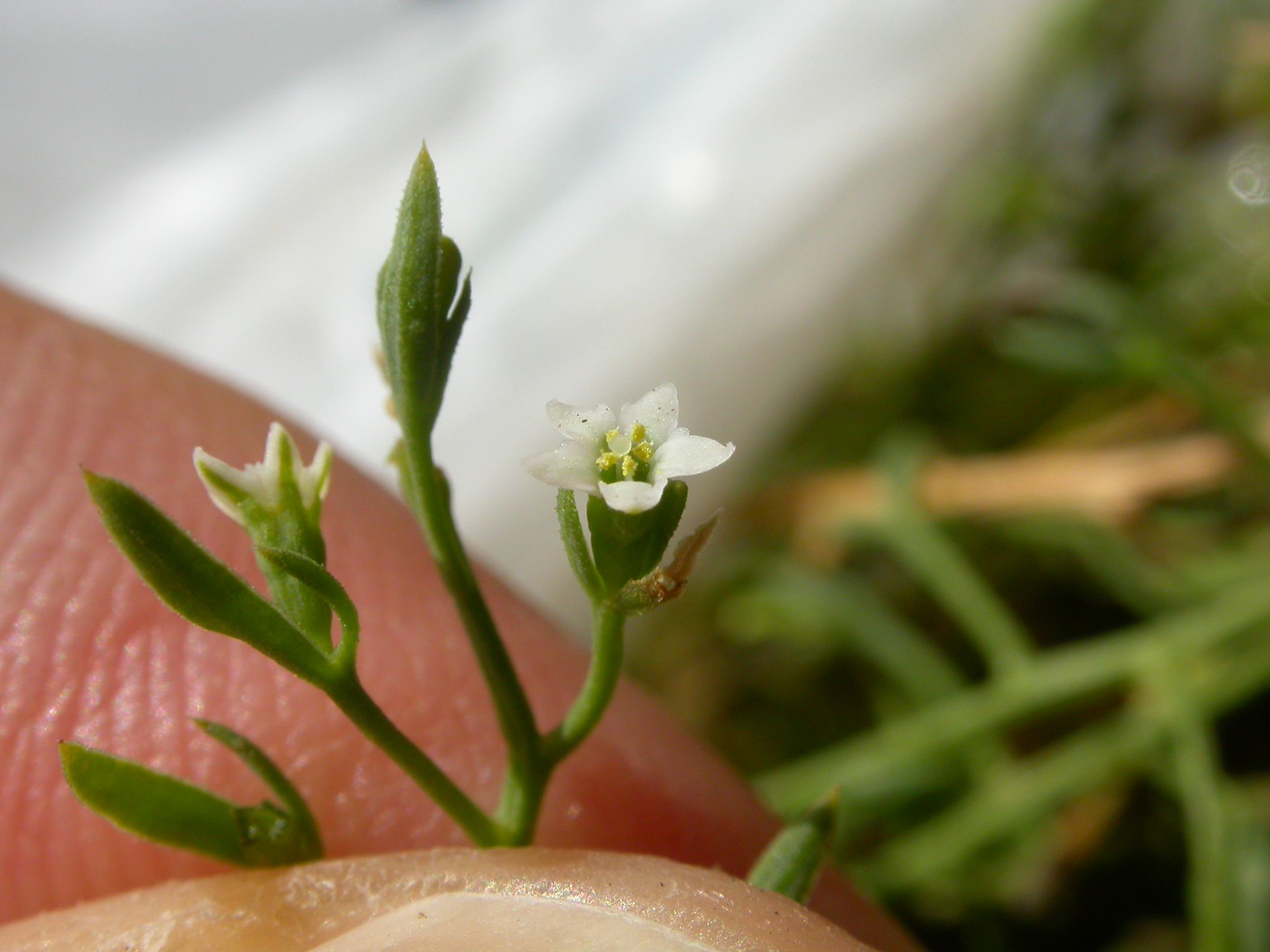 Thesium is locally common along the Burke Park Trail and to the east along the trail from Burke Park to Highland Bldv.